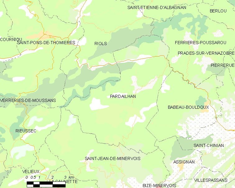 Map commune FR insee code 34193.png - Pardailhan